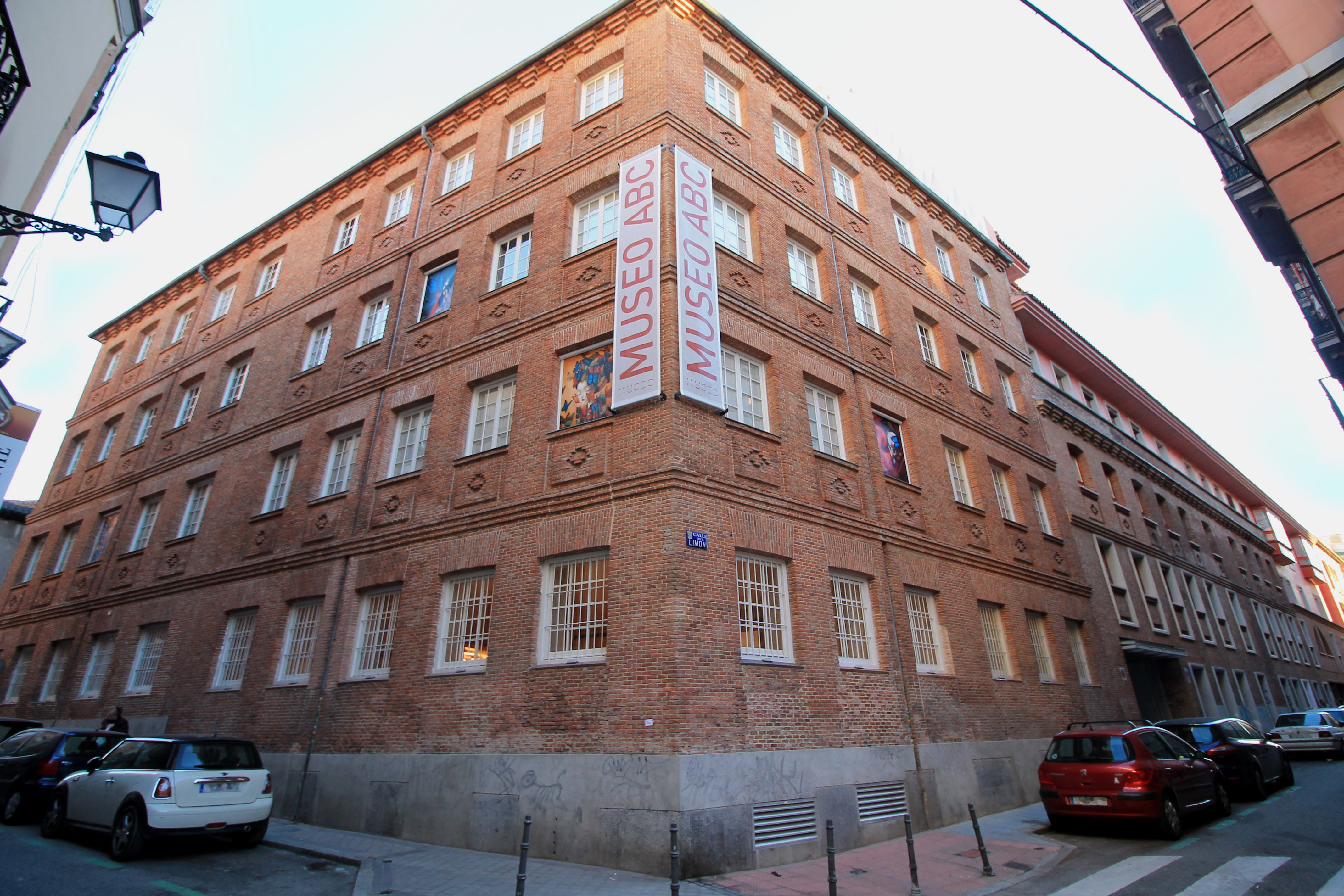 Façade of Museo ABC in Madrid (Spain).